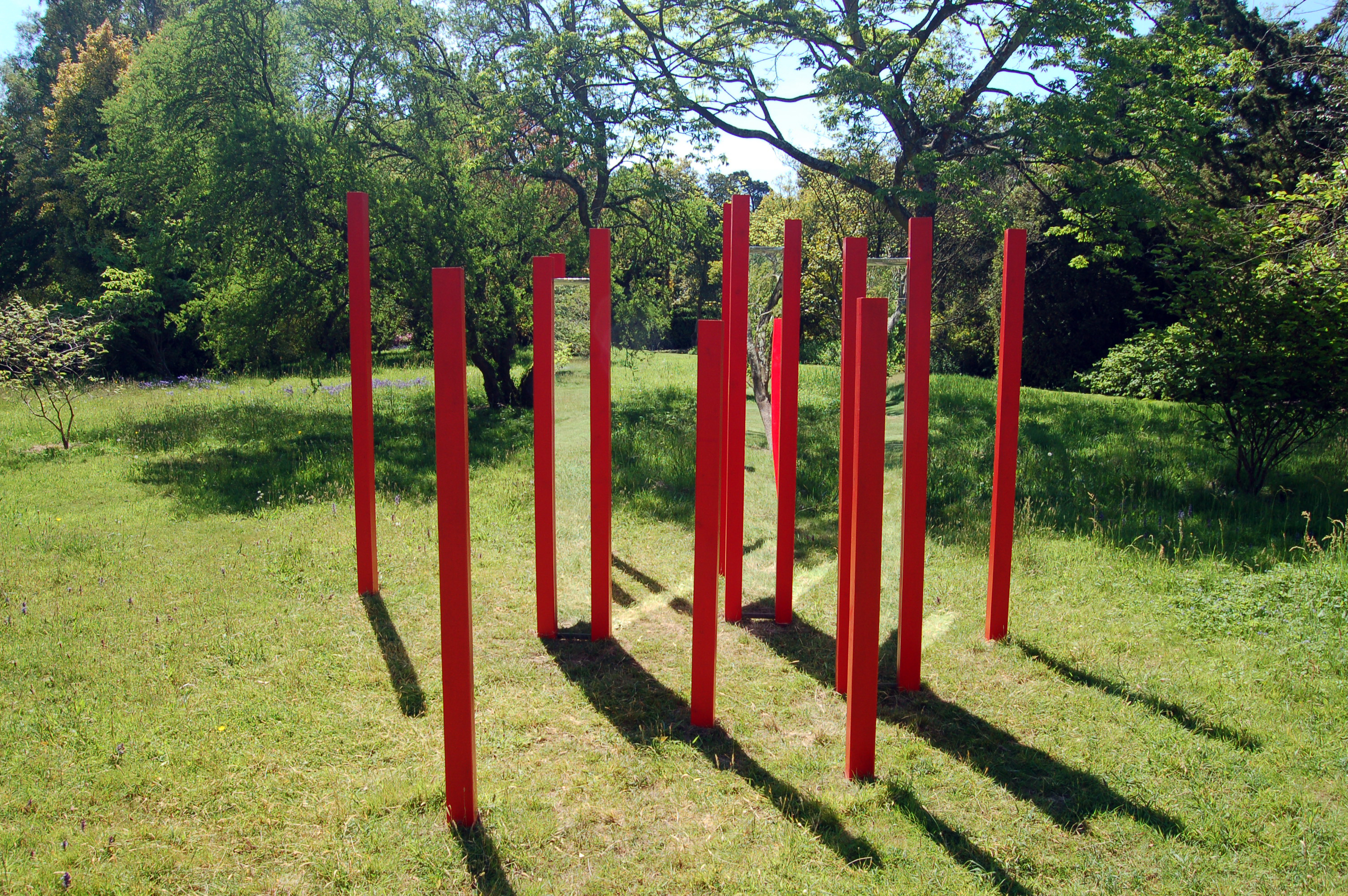 130 - Grove Of Mirrors, Hilary Arnold Baker